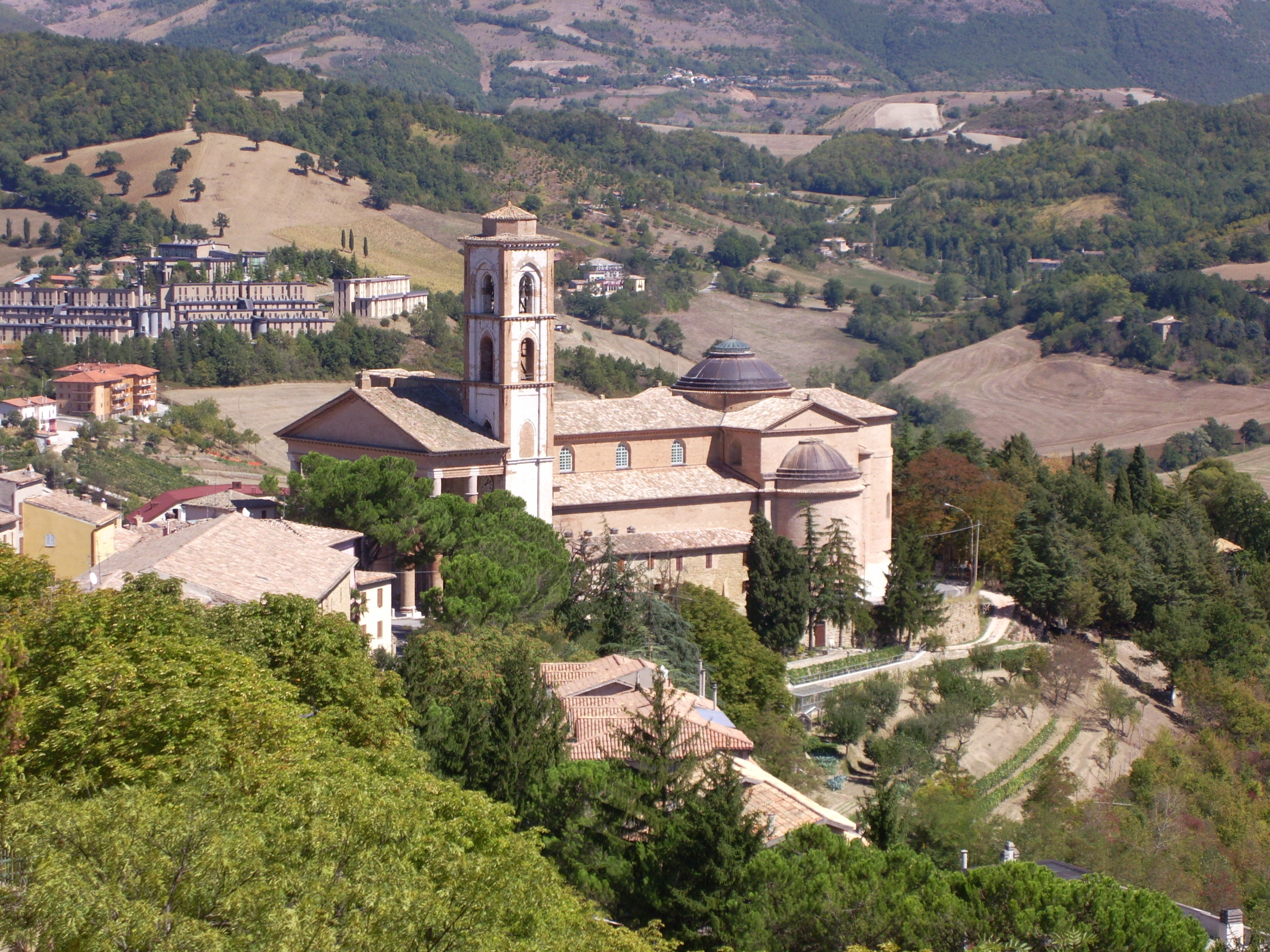 View of the Basilica of St Venanzio in Camerino (Italy).